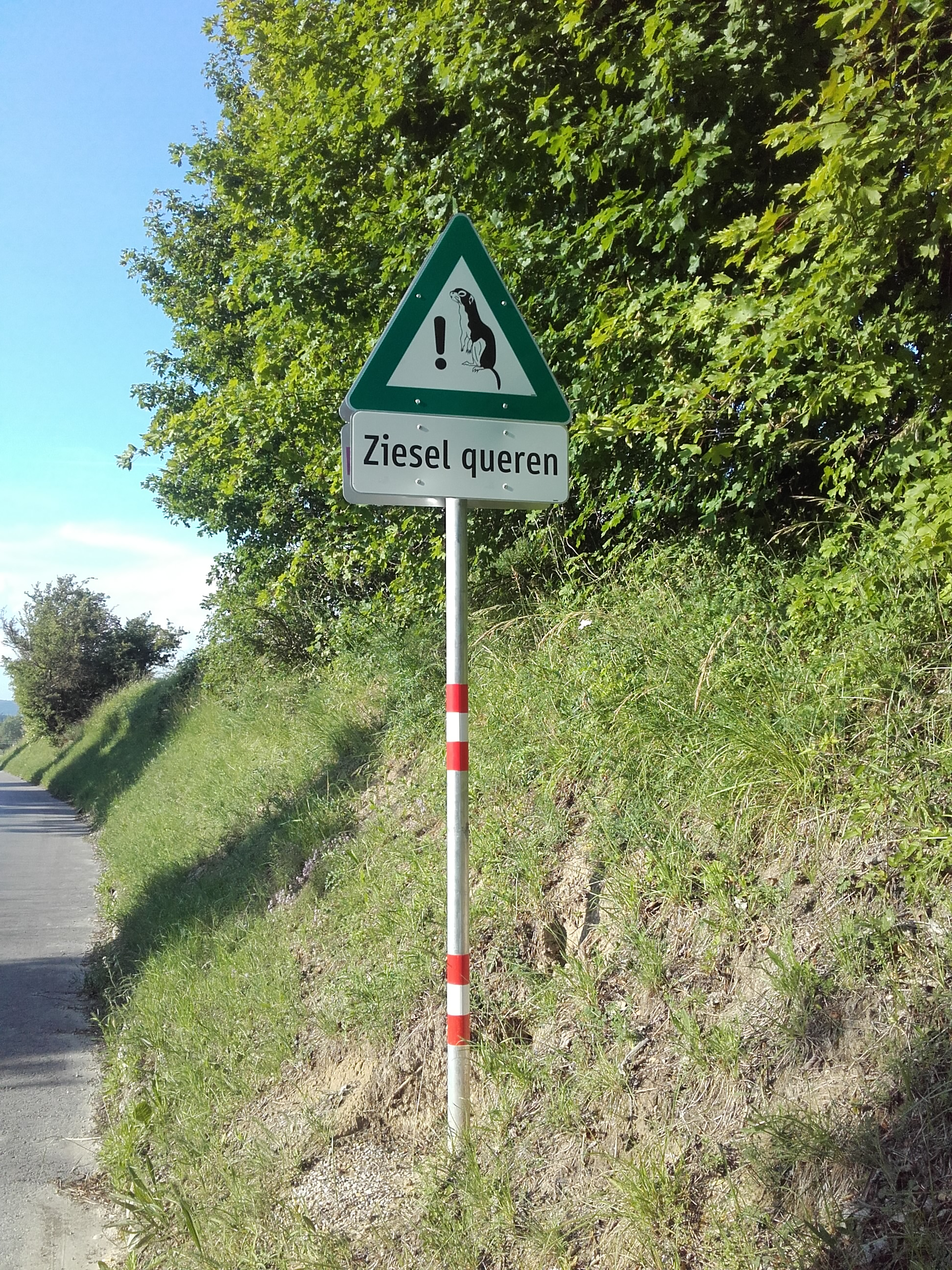 Green warning sign for crossing ground squirrels north of Stammersdorf, Vienna, Austria.